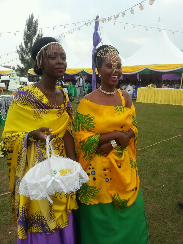 Ankole traditional wear from Uganda This is an image of Cultural Fashion or Adornment from Uganda